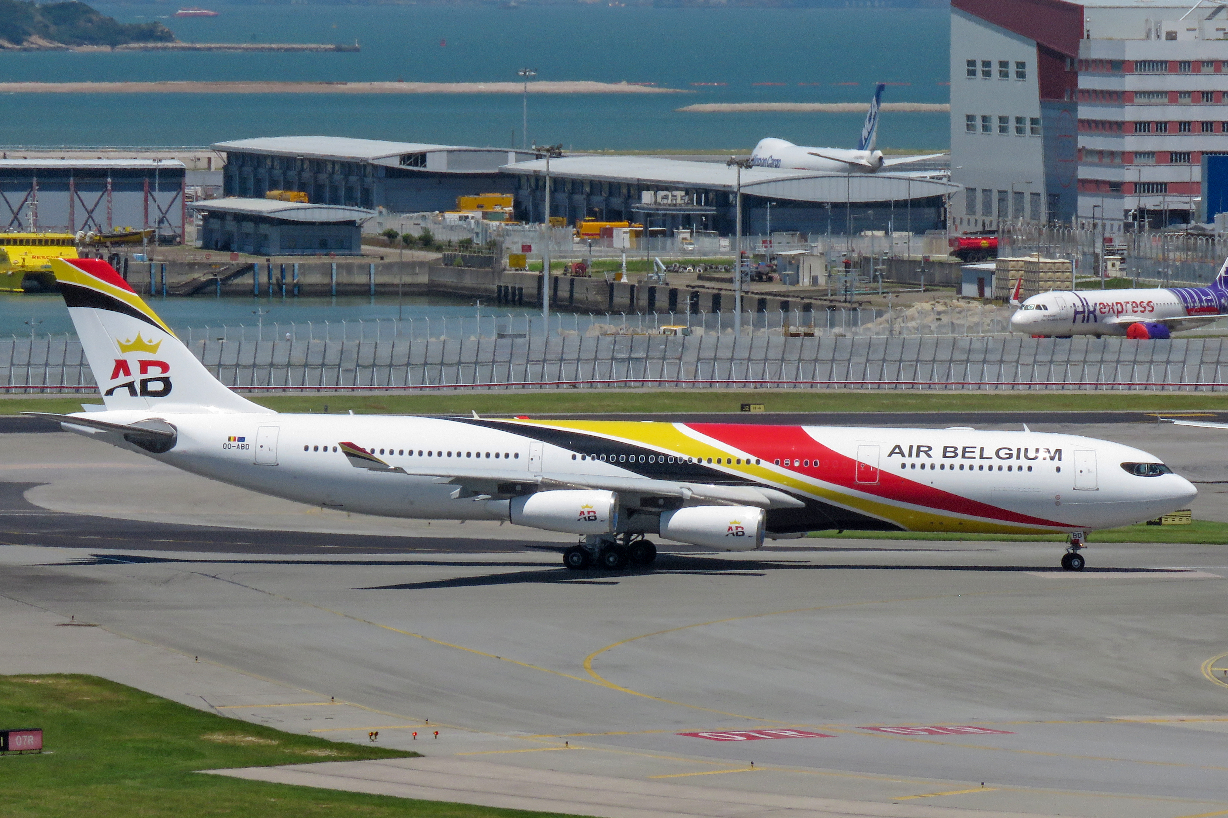 Air Belgium 852 to Charleroi (Brussels South). The flight number coincided with the telephone area number of Hong Kong.